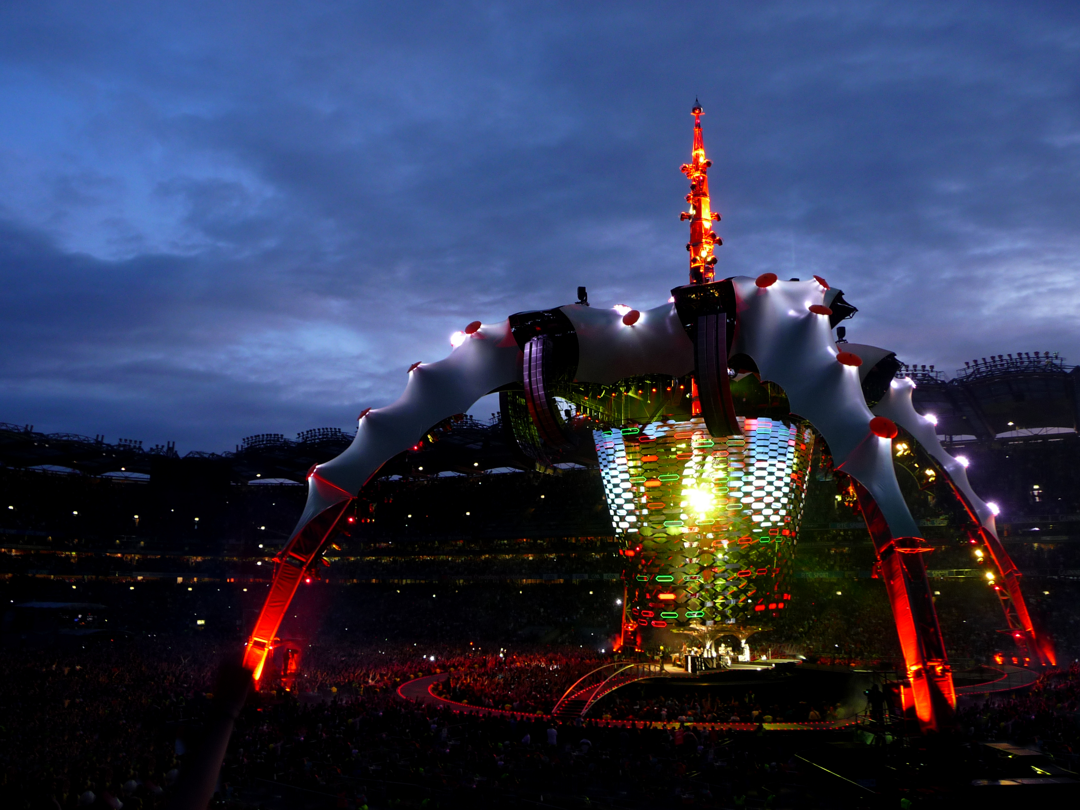 U2's 360°-stage in Dublin / Ireland on 27th of July 2009